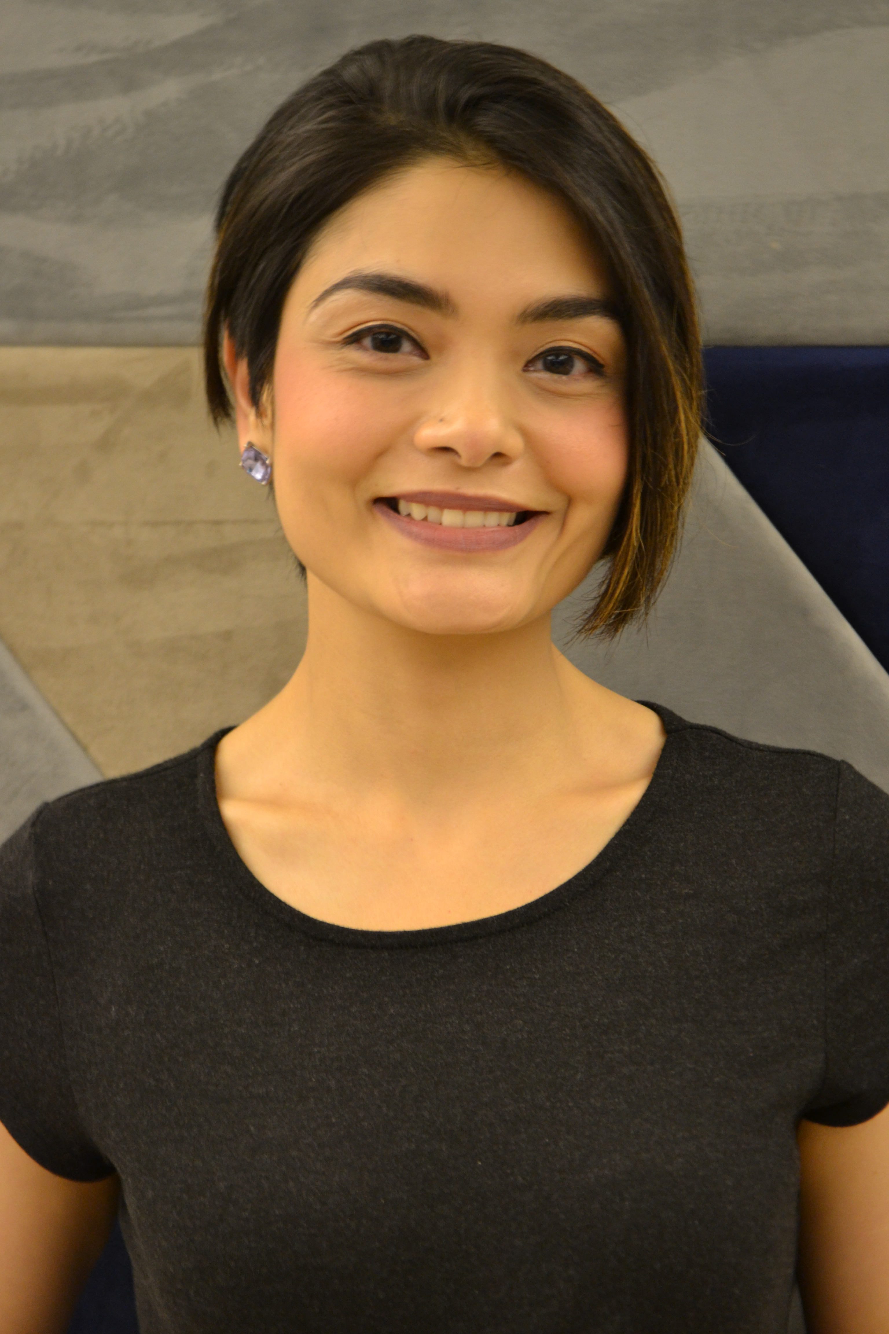 An image of Tehmina Kaoosji